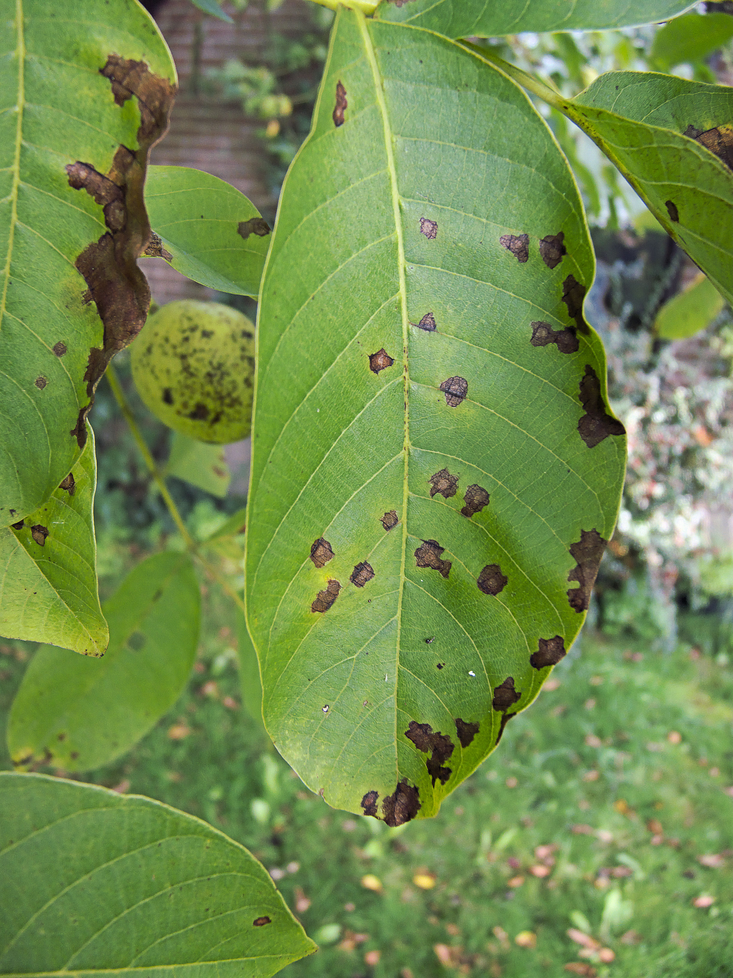 Gnomonia leptostyla on Juglans regia Buccaneer